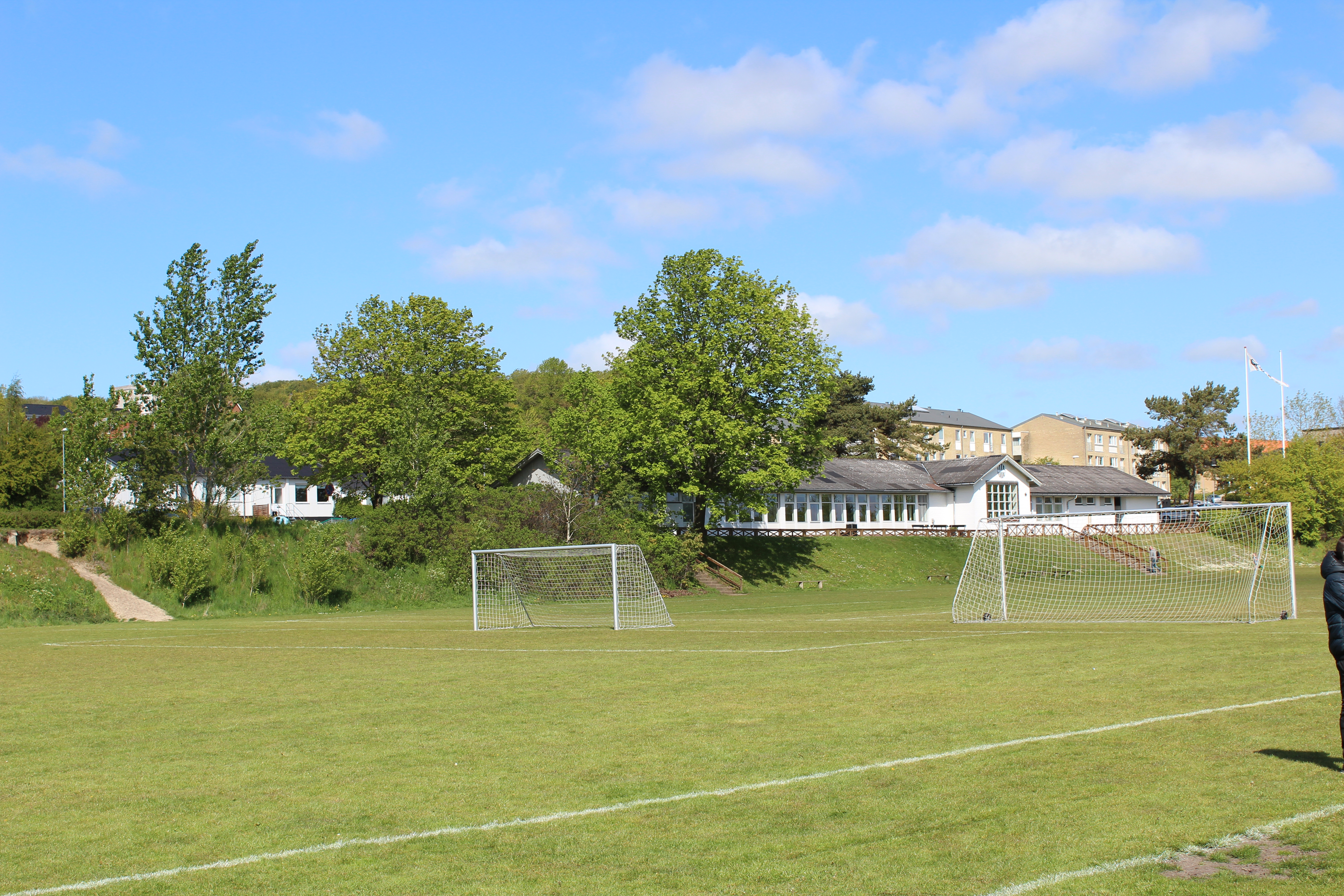 Home of Aalborg Chang seen from the football fields